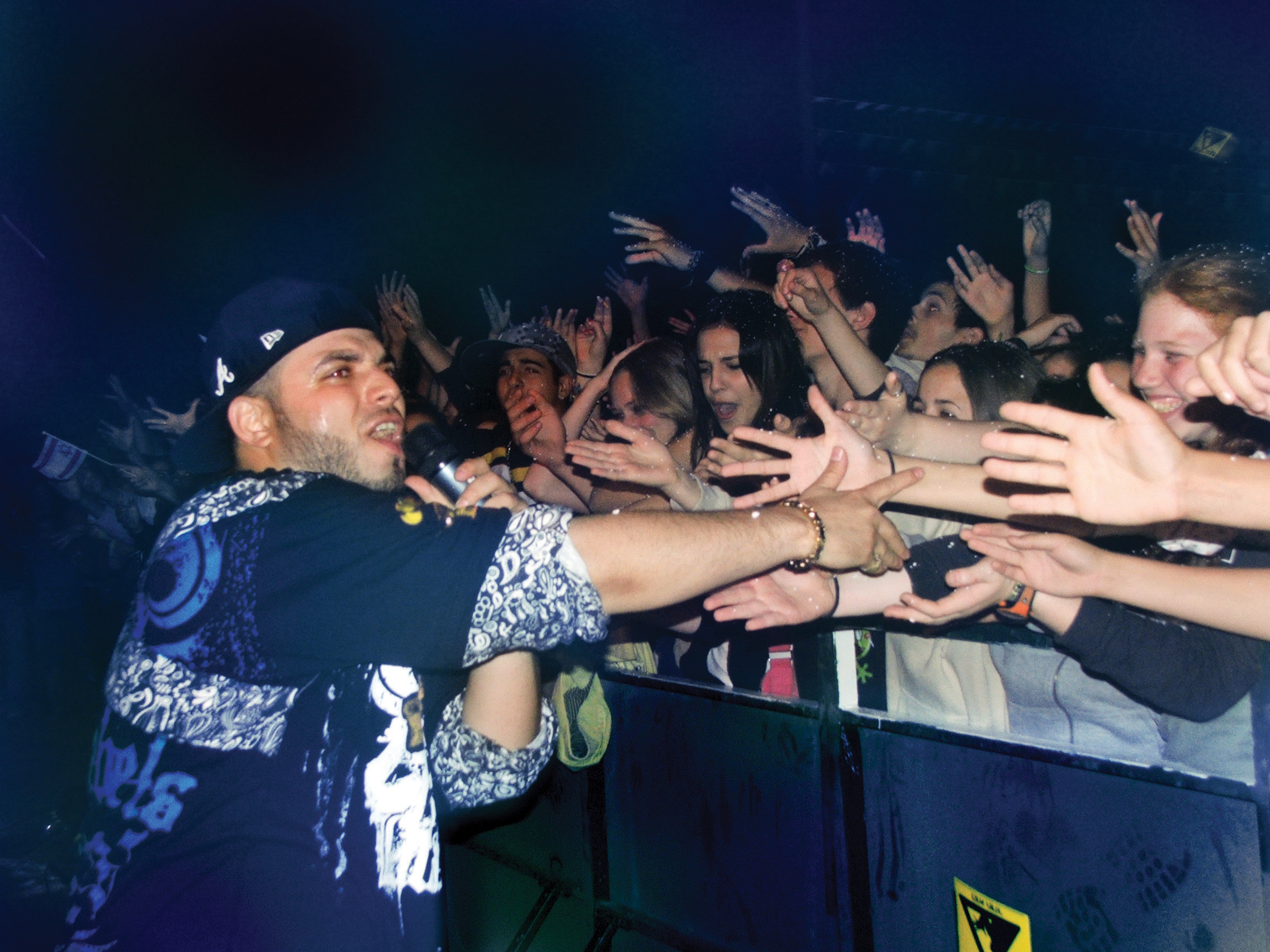 the israeli hip hop artist subliminal in a concert.